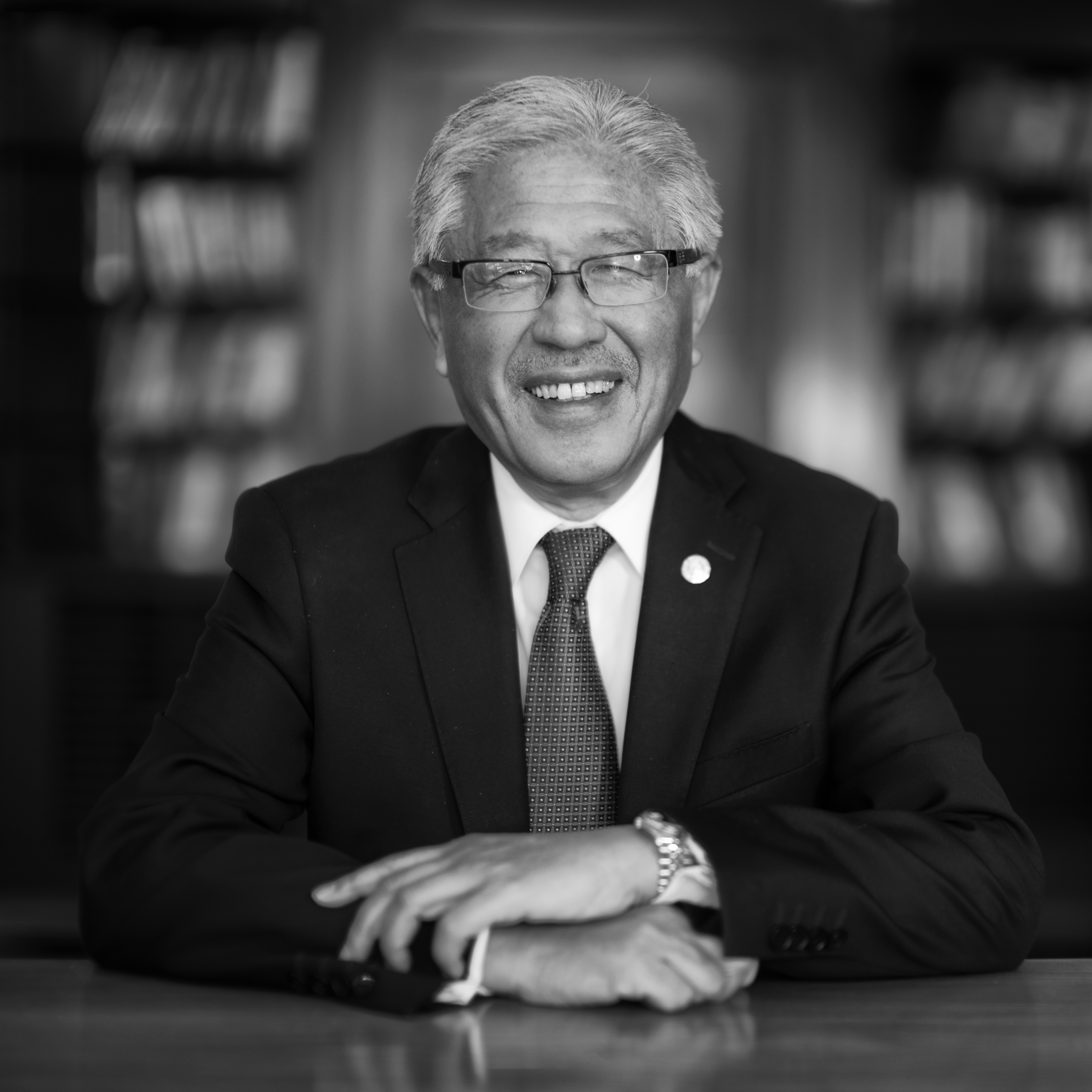 Dr Victor Dzau in 2020 at the National Academies in Washington DC by Christopher Michel.